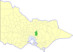 Location of the Shire of Yea within Victoria.